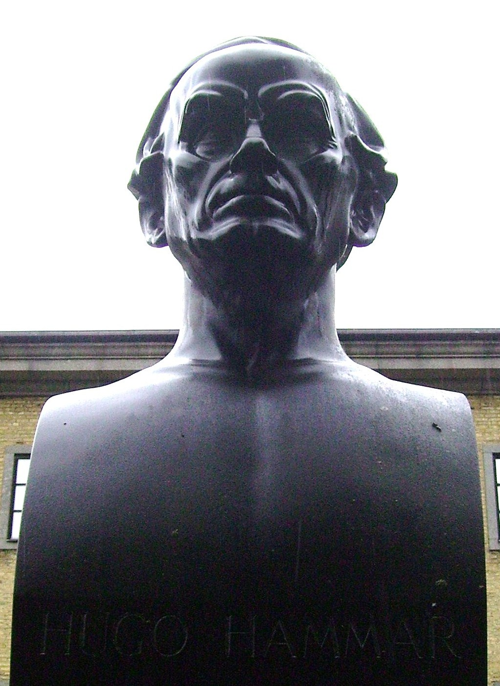 Picture of bust of Hugo Hammar in Göteborg